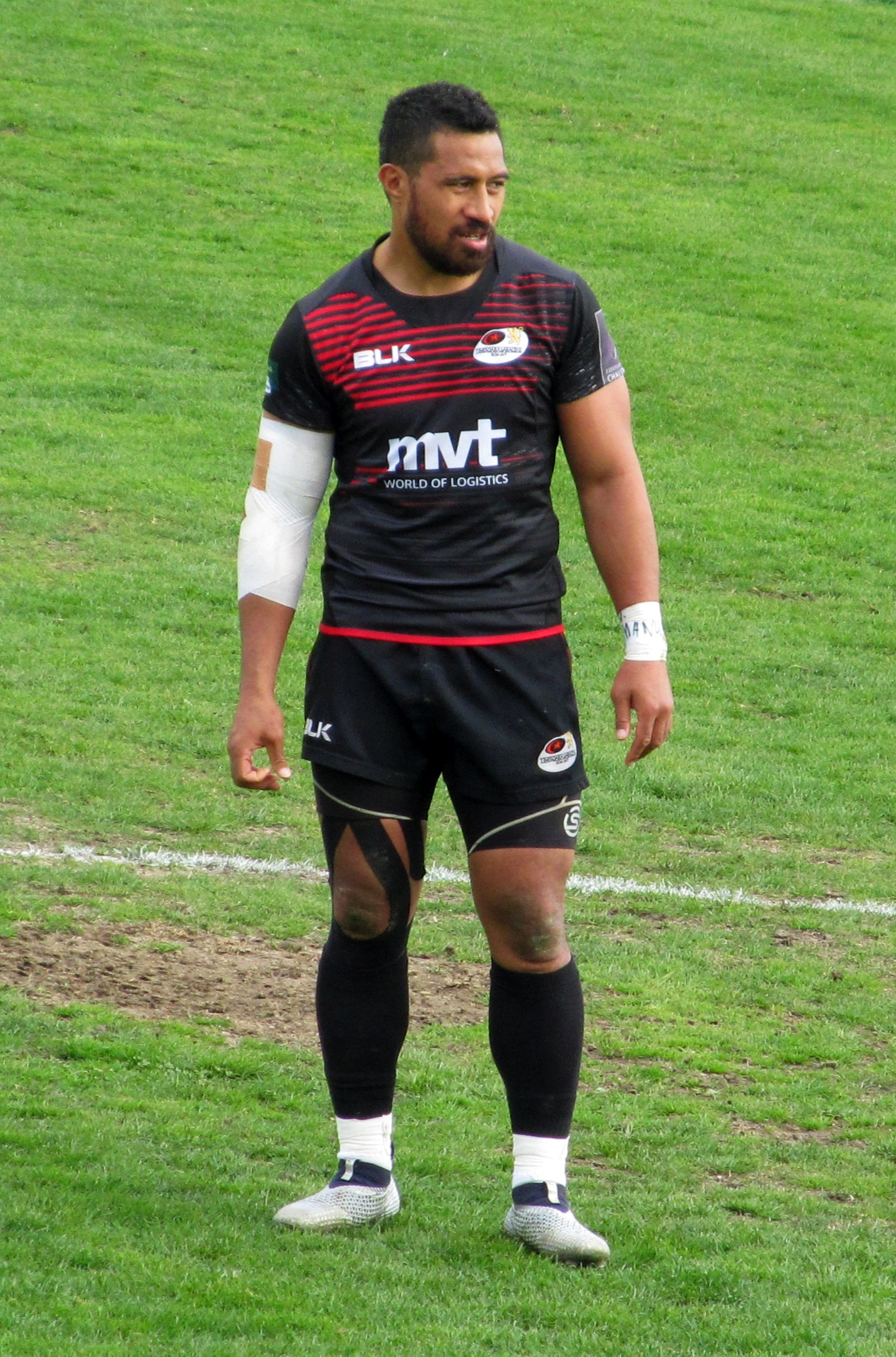 New Zealand-born Romanian rugby union football player Luke Samoa during the 2019 Cupa României Final match between his team, Timișoara Saracens, and rivals CSM București in March 2019